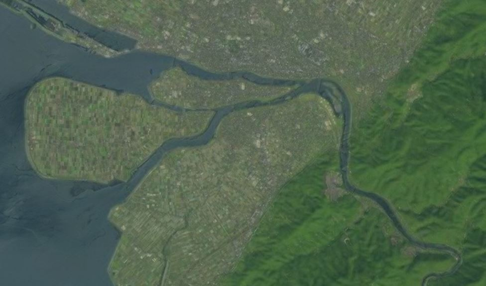 Japan: river mouth of the Kuma river in Yatsushiro (Kumamoto prefecture).